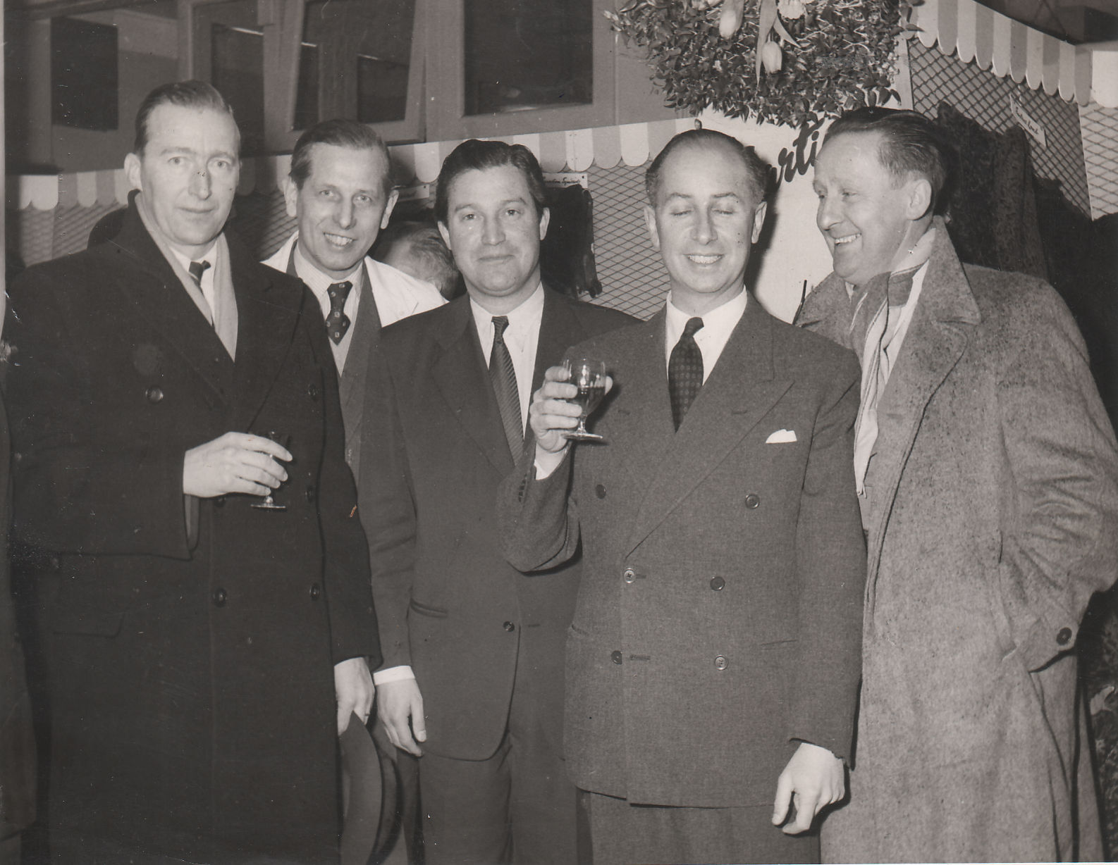 German members of the fur branch in London, c. 1960th years. From left: Walter Würker (Murrhardt), [...?], Otto Berger (Hamburg), Edgar Hepner, Richard Franke (Murrhardt).